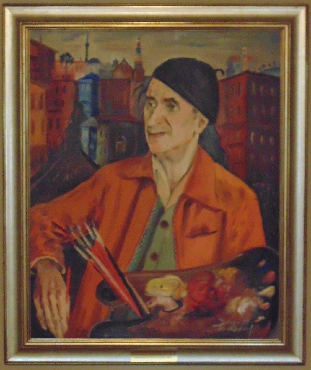 Tsanko Lavrenov, Zlatyu Boyadzhiev Exposition, Plovdiv